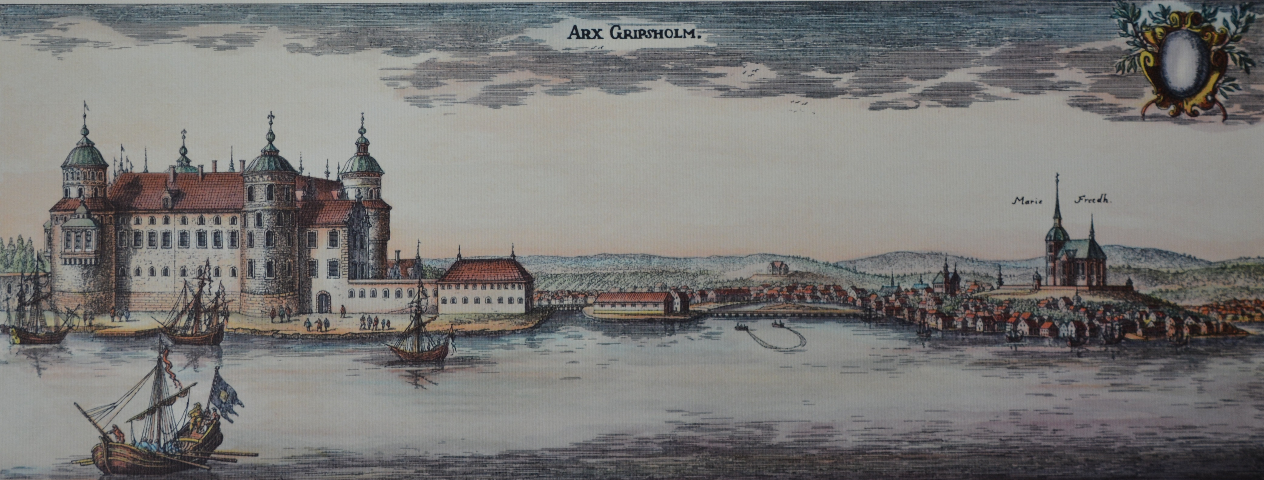 Gripsholm 1714 ur Suecua antiqua et hodeierna, handkolorerad